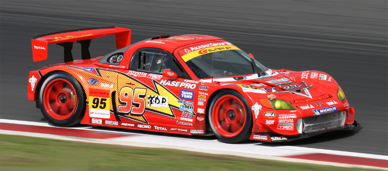 Super GT 2008 Rd.3: Kohei Hirate driving the "Lightning McQueen apr MR-S". The car won the race in the GT300 class.